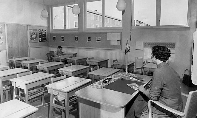 Asian flu going wild in Vivallius School in Örebro and the teacher Barbro Ogenvall is alone with the only well student Kjell Hagberg.